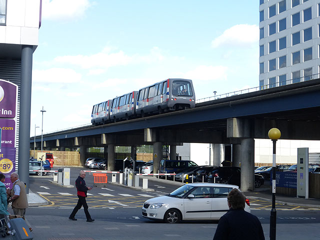 Shuttle train at Gatwick North Terminal